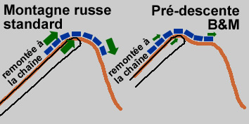 Diagram of the pre-drop track designs of B&M showing the effect of tension on the lift chain. Drawing created by myself, Sam-Pig.